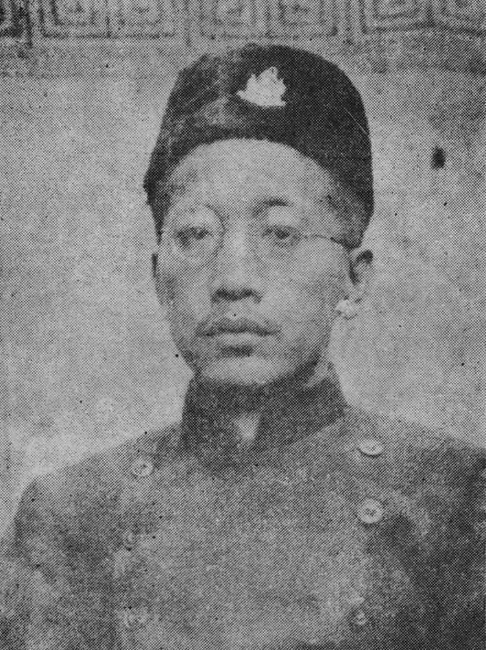 Portrait of Dharmaditya Dharmacharya (1902-1963), Nepal Bhasa writer and Buddhist activist in ca. 1930.